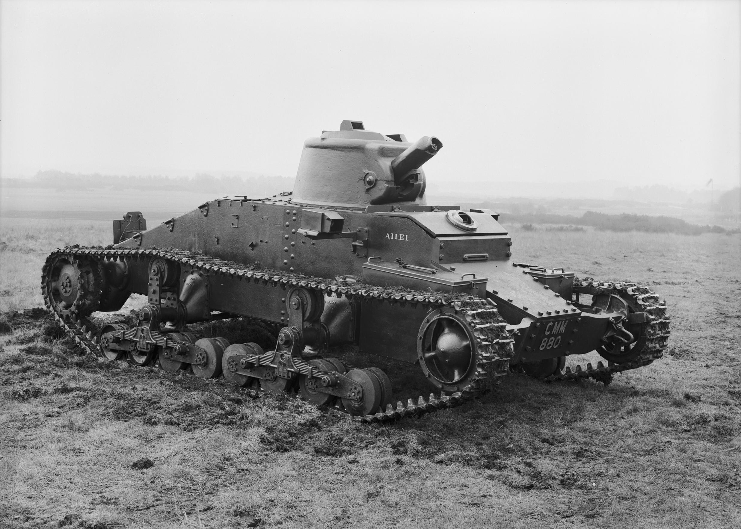 BRITISH ARMOURED FIGHTING VEHICLES 1918-1939: Infantry Tank Mk I Matilda I.